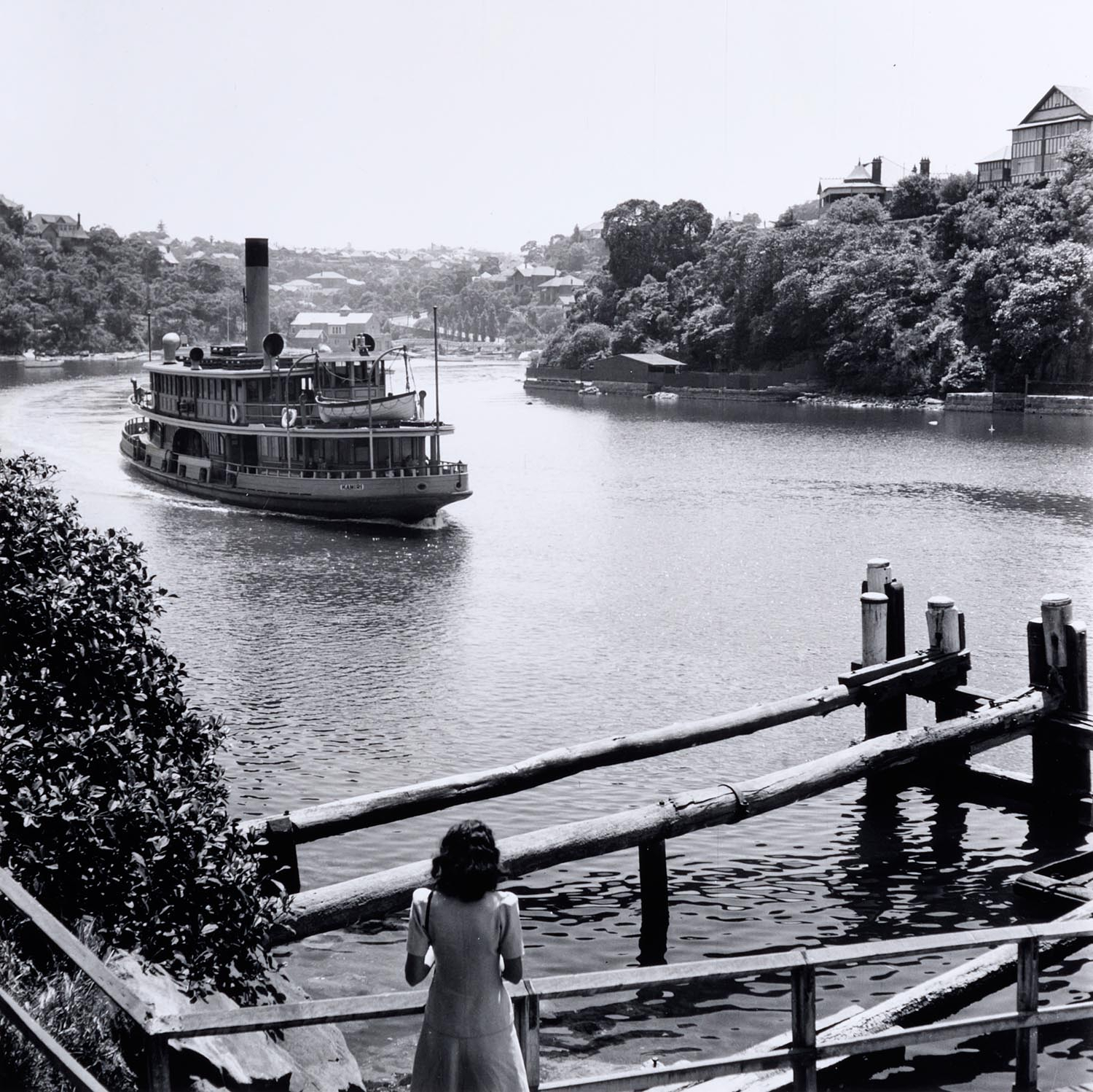 Sydney K-class Ferry Kamiri in Mosman Bay 1946. Ferry built 1912, broken up circa 1951. Photo by Max Dupain from Old Cremorne Wharf